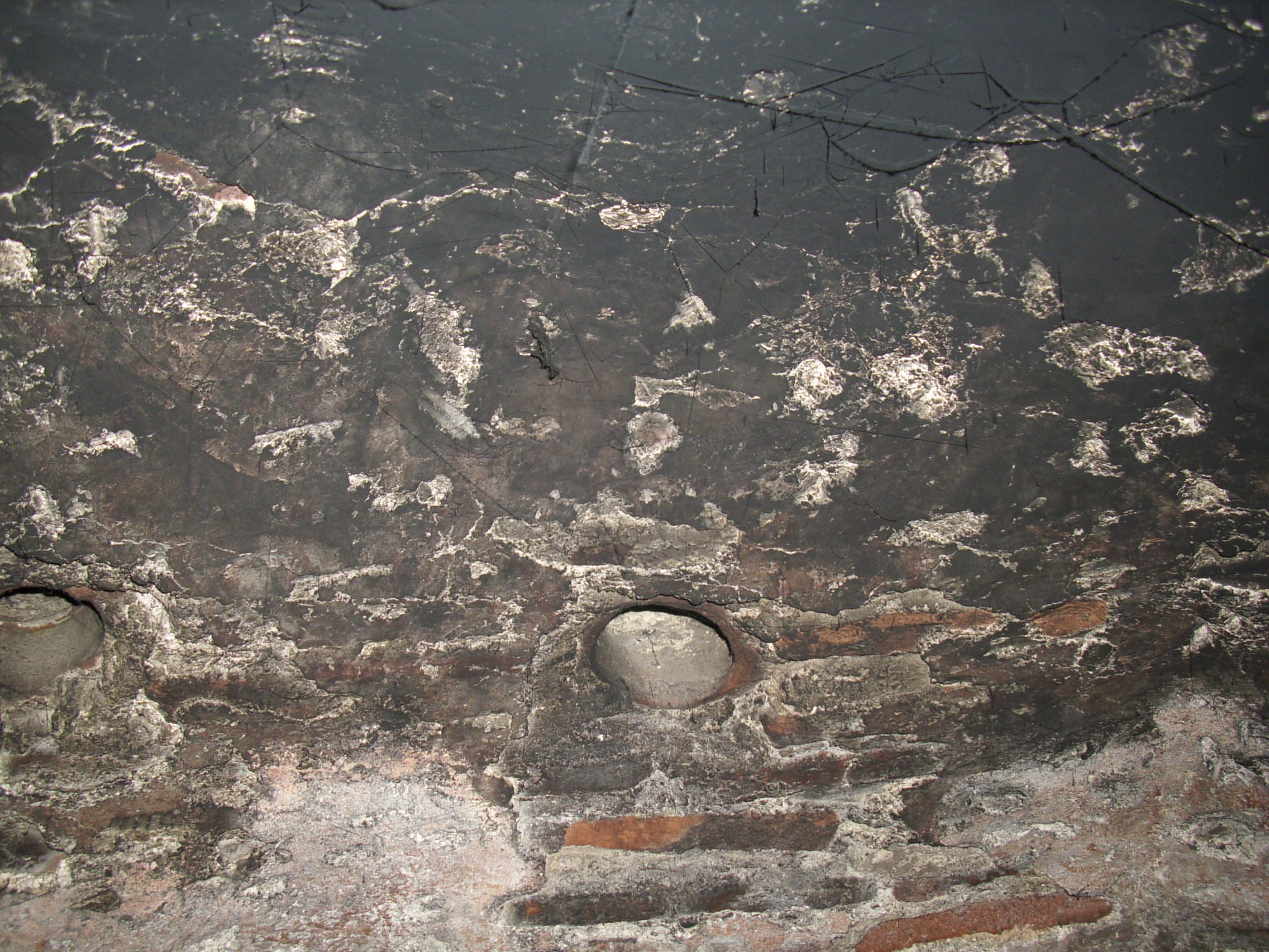 St Nikolai XIII c Sofia